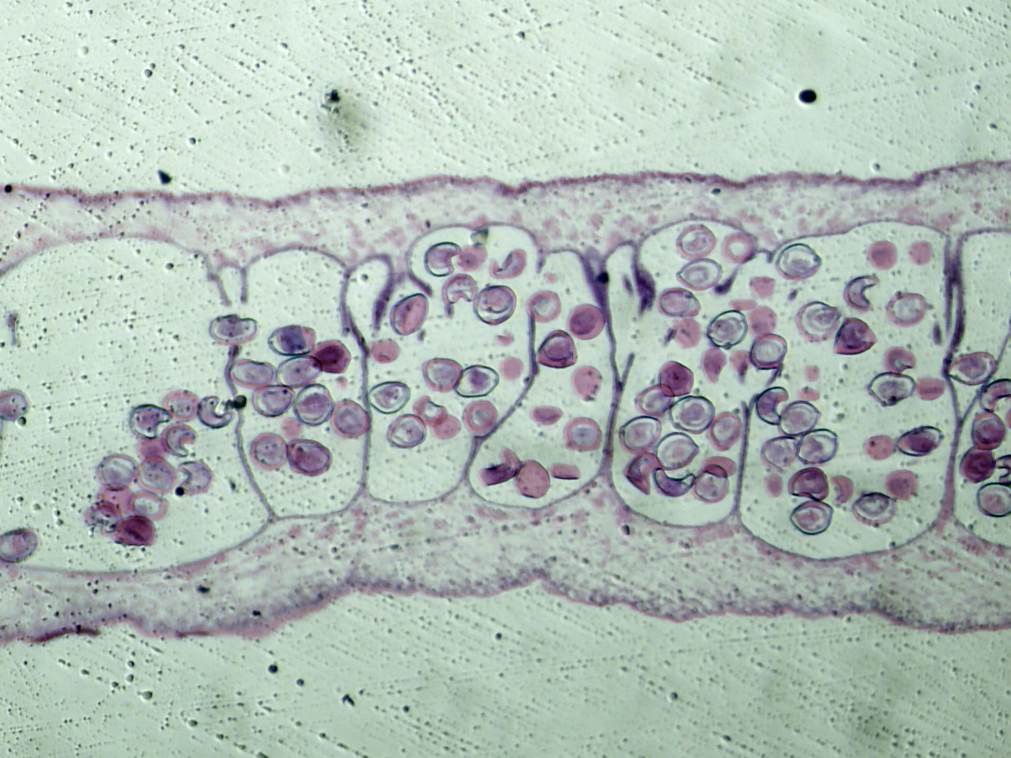 Taenia proglottid with eggs